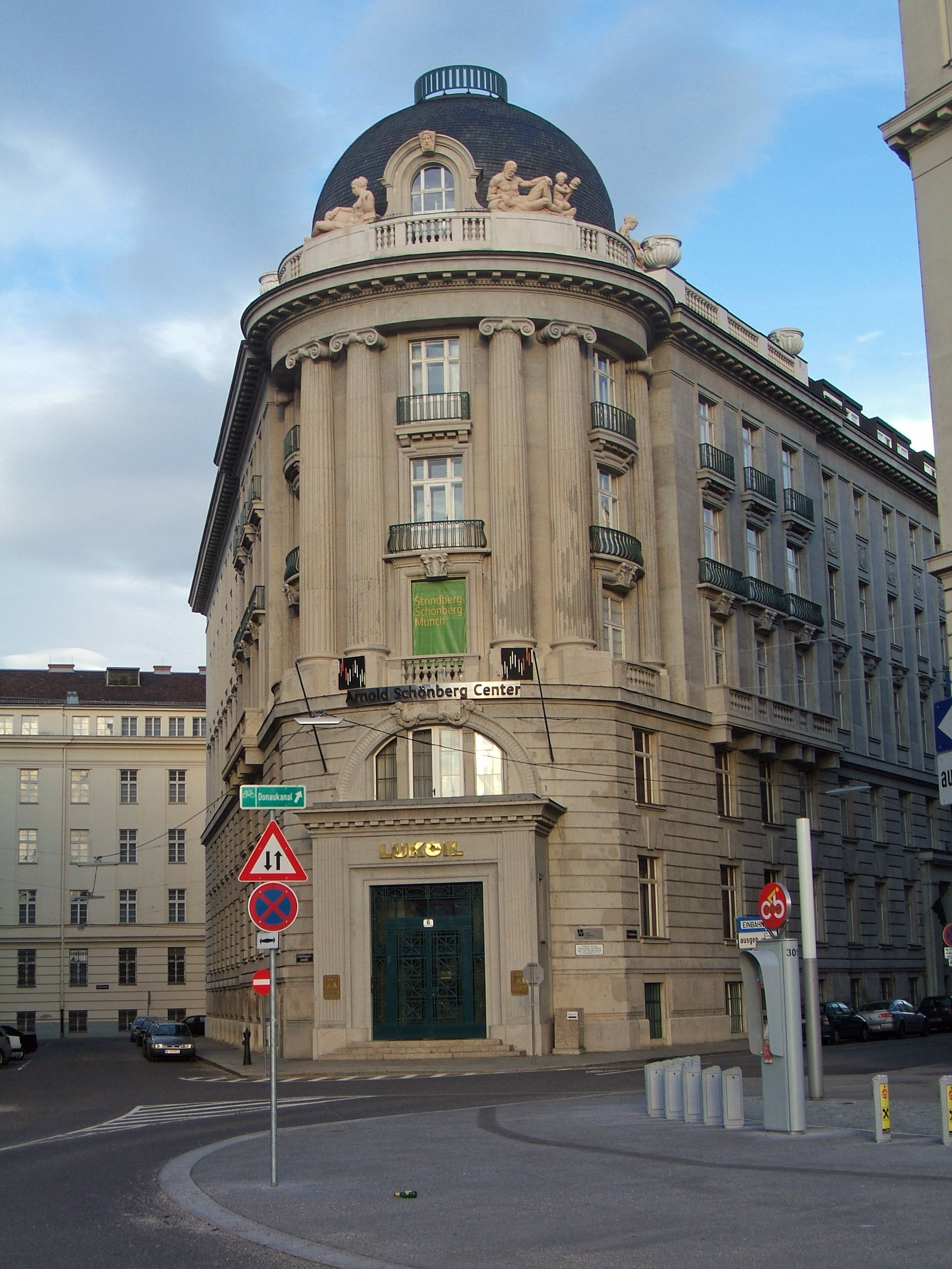 Palais Fanto in Vienna 3rd district Schwarzenbergplatz 6